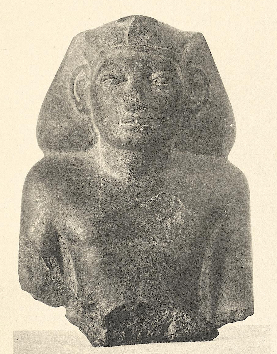 Upper part of a statue of Khendjer from his pyramid complex at Saqqara south; granite, Egyptian Museum Cairo, JE 53368